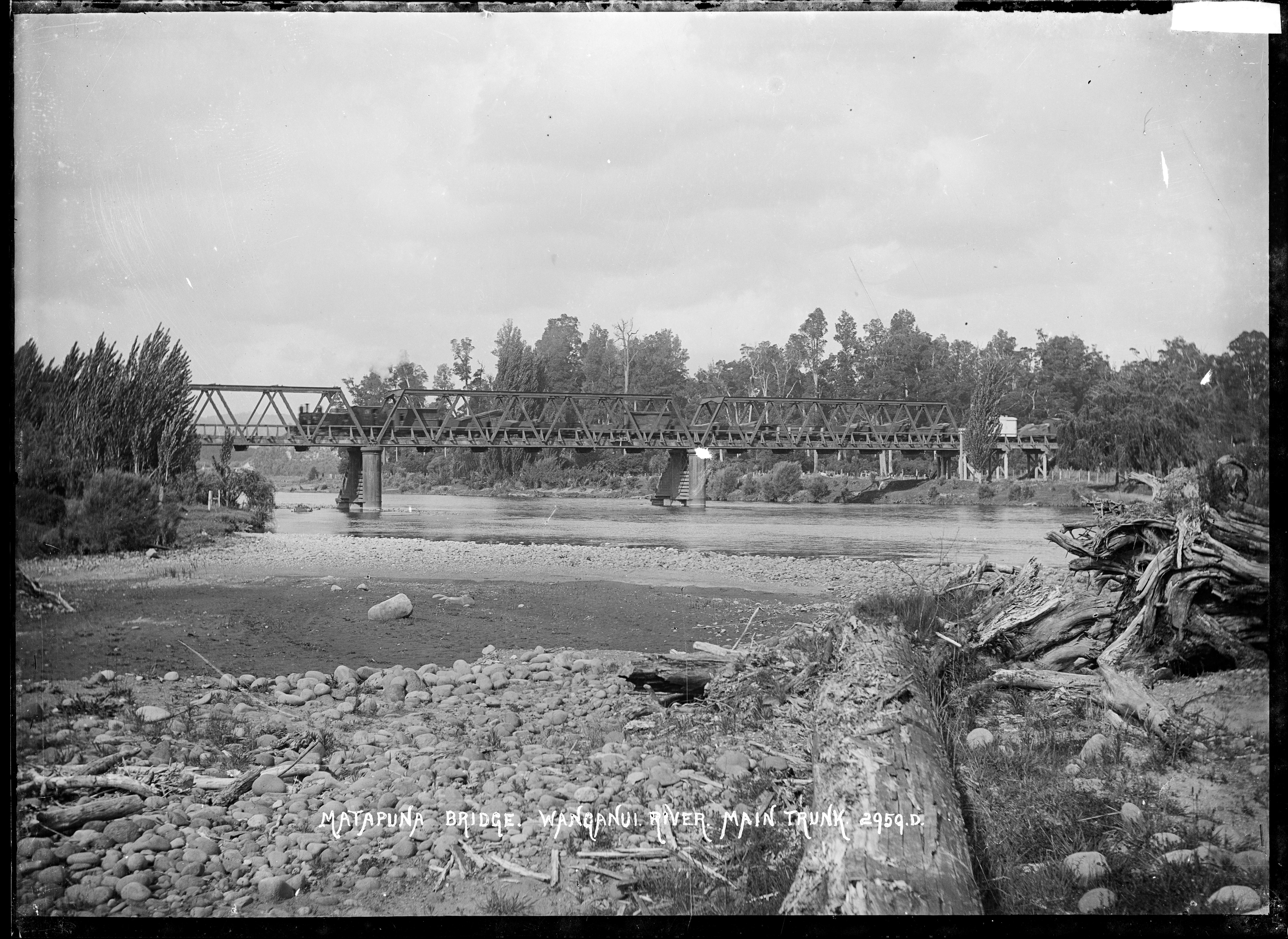 View of the Matapuna Railway Bridge across the Whanganui River near Taumarunui, in the Northe Island Main Trunk Line. Photograph taken by William Archer Price. Inscriptions: Inscribed - Photographer's title on negative -bottom centre: Matapuna Bridge. Wanganui River. Main Trunk. [No.] 2959.D. Quantity: 1 b&w original negative(s). Physical Description: Dry plate glass negative View of the Matapuna Bridge on the North Island Main Trunk Line, across the Whanganui River near Taumarunui. Price, William Archer, 1866-1948 :Collection of post card negatives. Ref: 1/2-000703-G. Alexander Turnbull Library, Wellington, New Zealand.